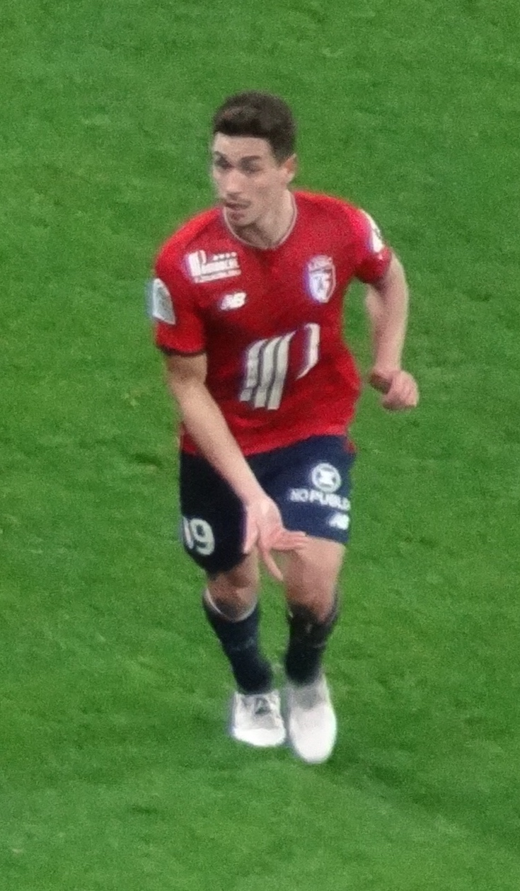 Ezequiel Ponce (LOSC)